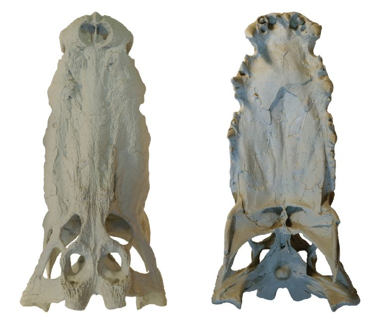 Skull of the crocodyliform Kaprosuchus saharicus. Cranium in dorsal (left) and ventral (right) view.